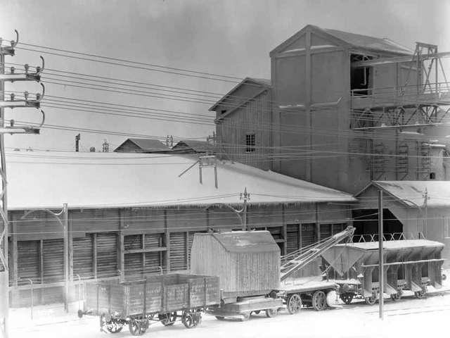 Hafslund karbidfabrikk, on Hafslundsbanen, Sarpsborg, Norway.